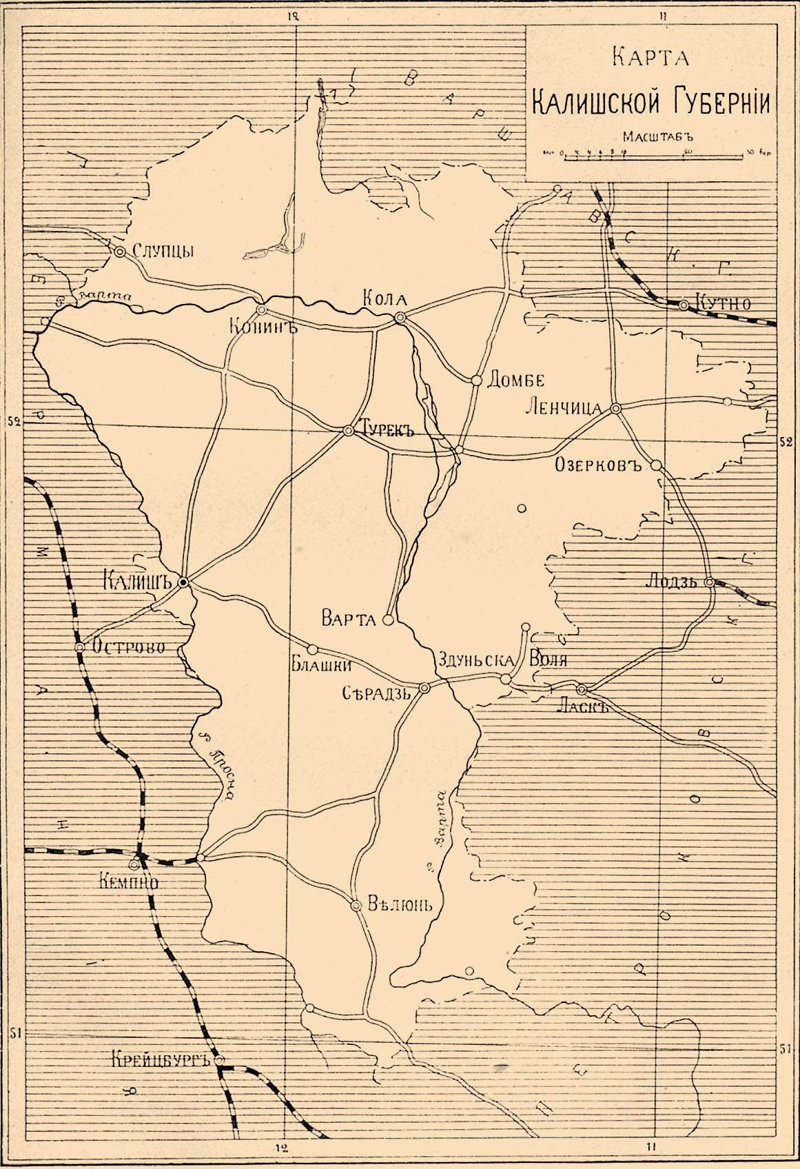 Illustration from Brockhaus and Efron Jewish Encyclopedia (1906—1913)